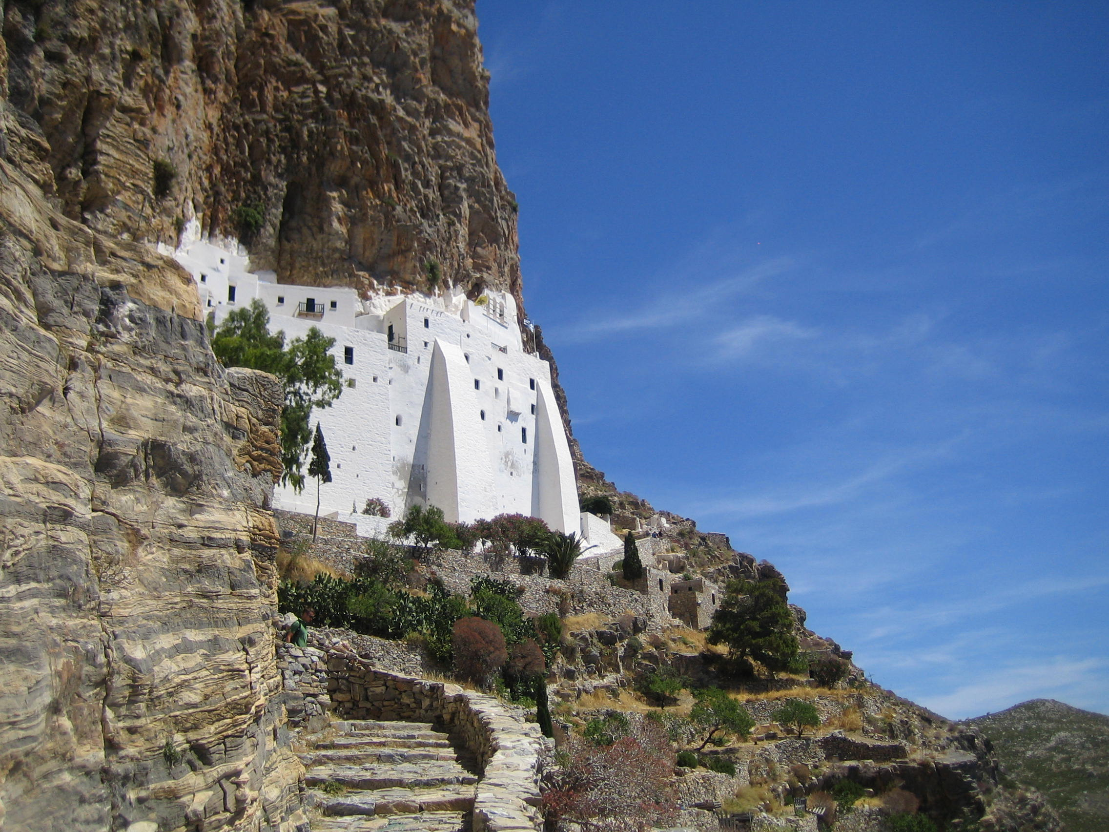 Monastere Panagia Chozoviotissa. Chora. Amorgos Island. Greece., Amorgós.